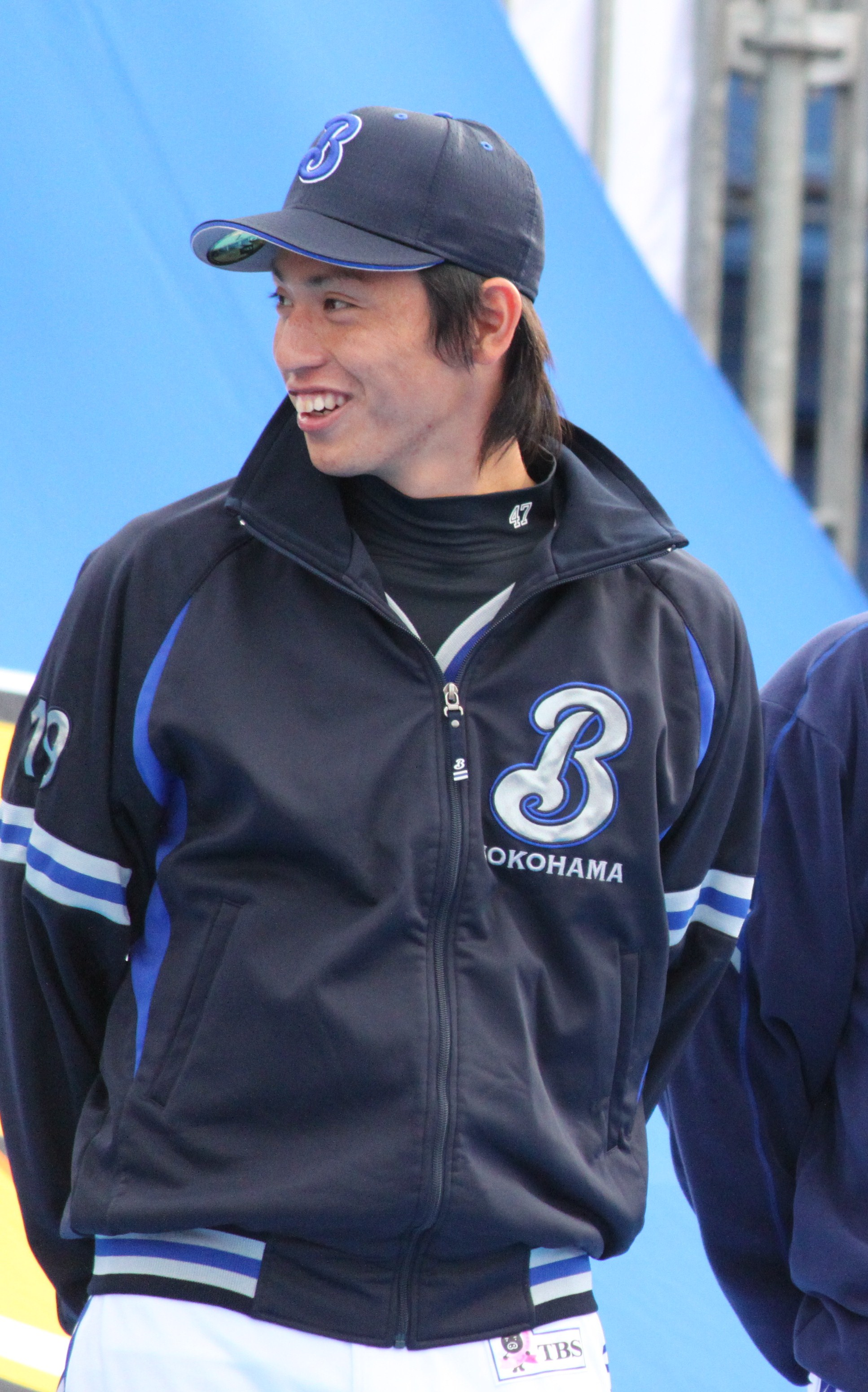 Takayuki Makka, pitcher of the Yokohama BayStars, at Yokohama Stadium.